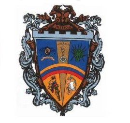 Coat of arms of Barquisimeto, Lara state, Venezuela